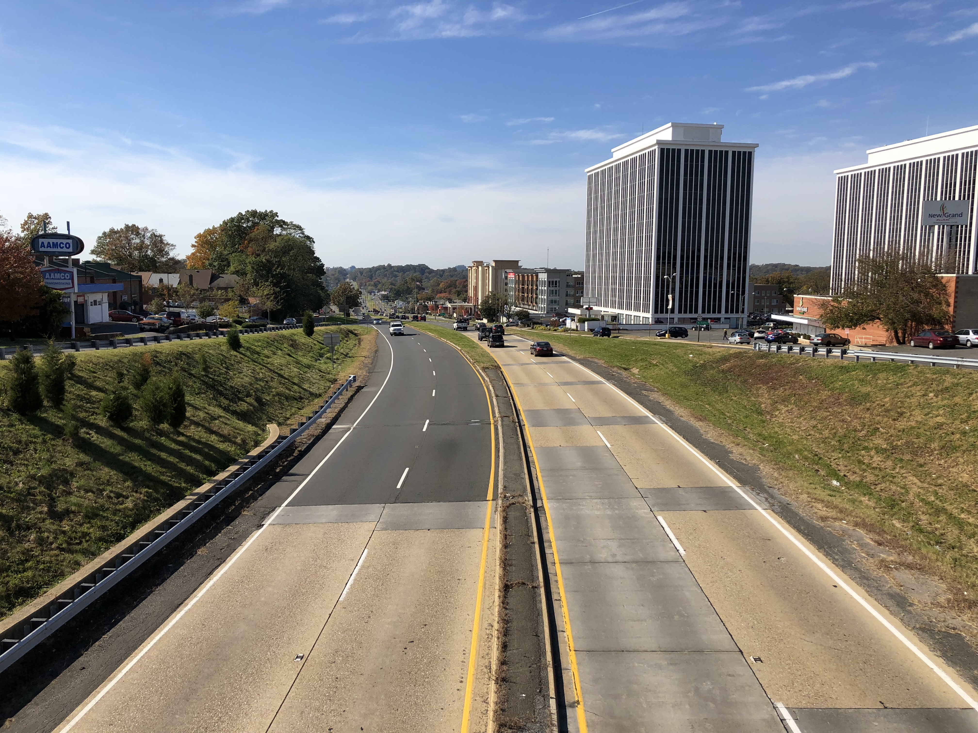 View west along U.S. Route 50 (Arlington Boulevard) from an overpass for an unnamed road just west of Virginia State Route 7 (Leesburg Pike) and Virginia State Route 613 (Wilson Boulevard/Sleepy Hollow Road) in West Falls Church, Fairfax County, Virginia